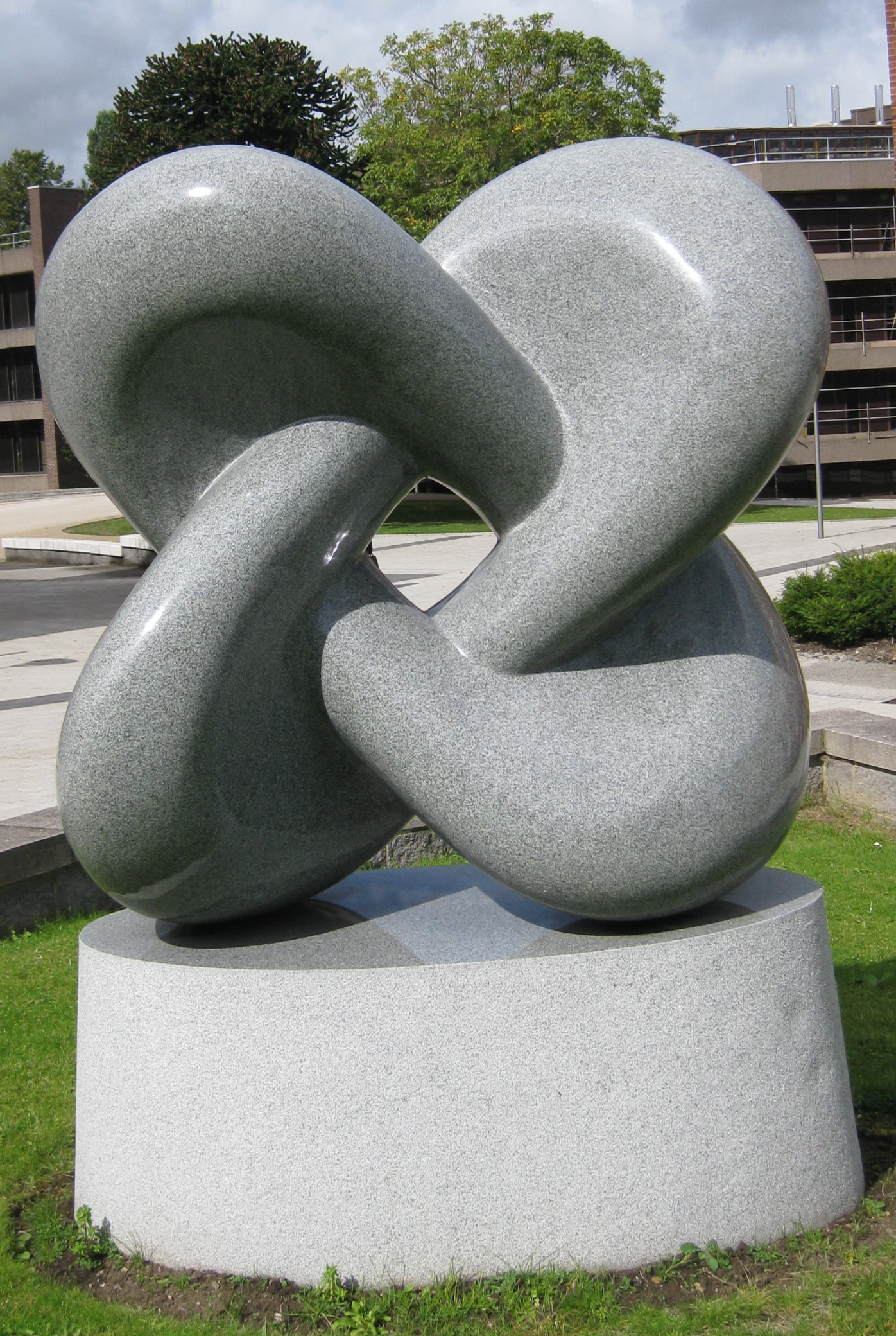 "Willmore Surface" a sculpture by Peter Sales, representing a 4-lobed torus, in memory of Thomas J. Willmore, professor of mathematics at the University of Durham, where the sculpture is located. Unveiled 13 March 2012.